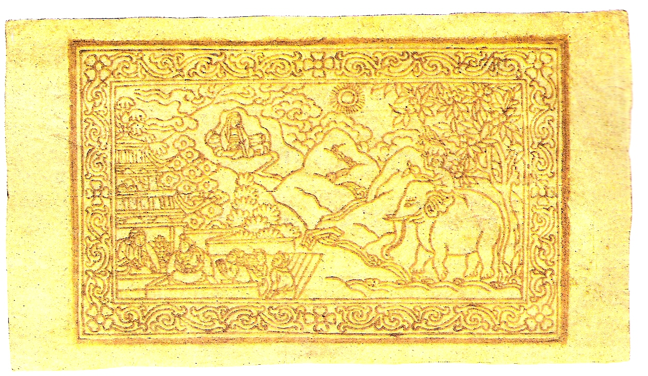 Tibetan 25 tam banknote, dated 1659 ( = AD 1913), reverse